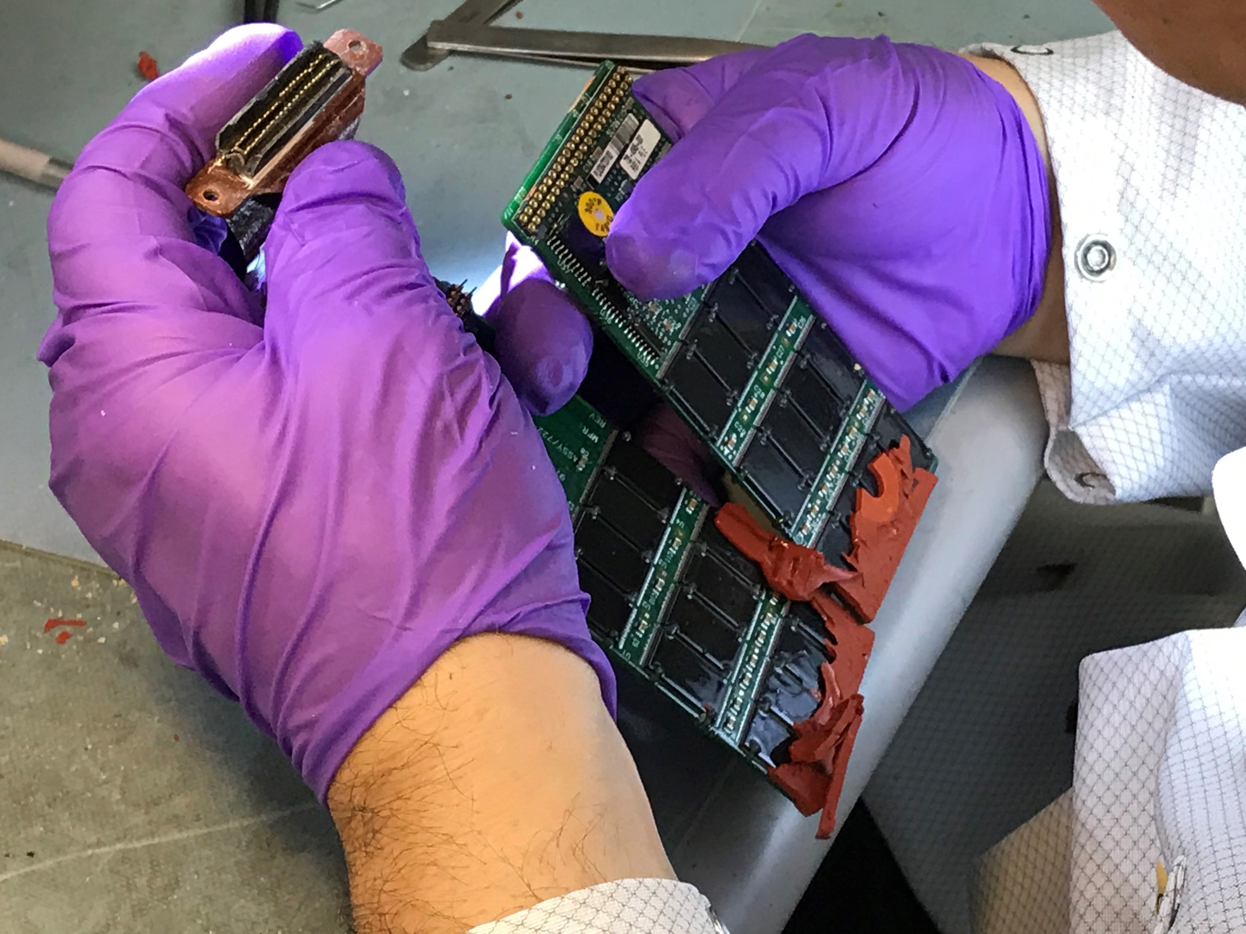 WASHINGTON (March 4, 2019) — Memory boards from the cockpit voice recorder of Atlas Air Flight 3591 are inspected for signs of damage and water intrusion by an NTSB engineer from the Office of Research and Engineering’s Vehicle Recorder Division at the NTSB laboratory in Washington, March 2, 2019. Atlas Air Flight 3591 crashed Feb. 23, 2019, about 30 miles from Houston’s George Bush Intercontinental Airport, and the NTSB recovered the airplane’s CVR March 1, 2019. (NTSB photo)